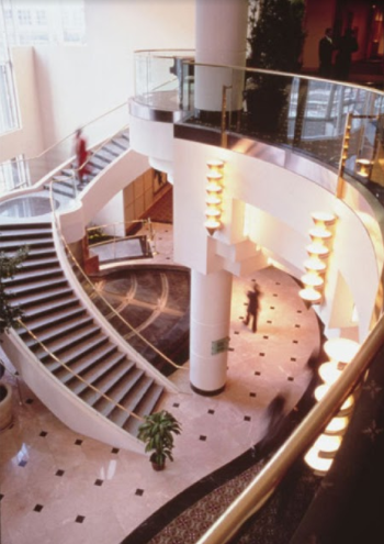 Marriott World Trade Center's lobby in the mid 90s